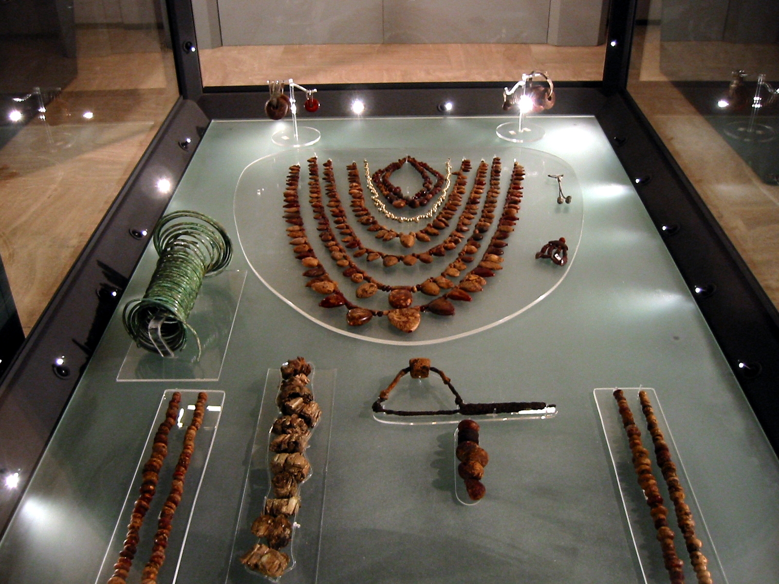 Jewellery from the excavations of Siris and Herakleia in Magna Graecia. On view in the Museo Nazionale Della Siritide in Policoro in Italy.